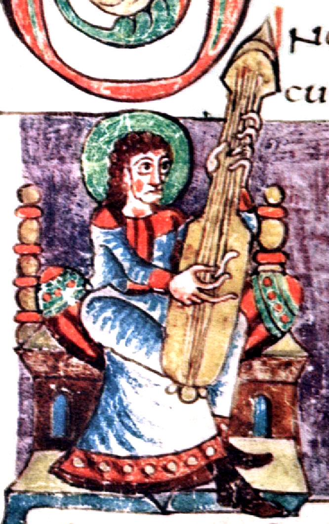 Photograph of a medieval artwork, showing a guitar-like plucked instrument. From the Carolingian (i.e. French) Stuttgart Psalter (Stuttgart, Württembergische Landesbibliothek, Cod. bibl. 2° 23, fol. 108r), 9th century manuscript.